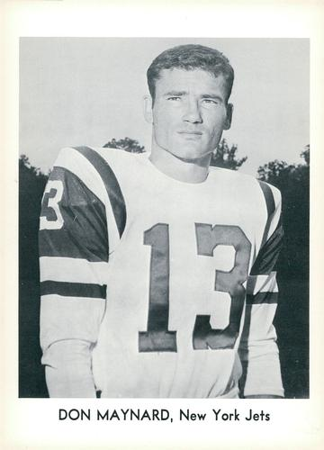 A promotional image of New York Jets player Don Maynard.